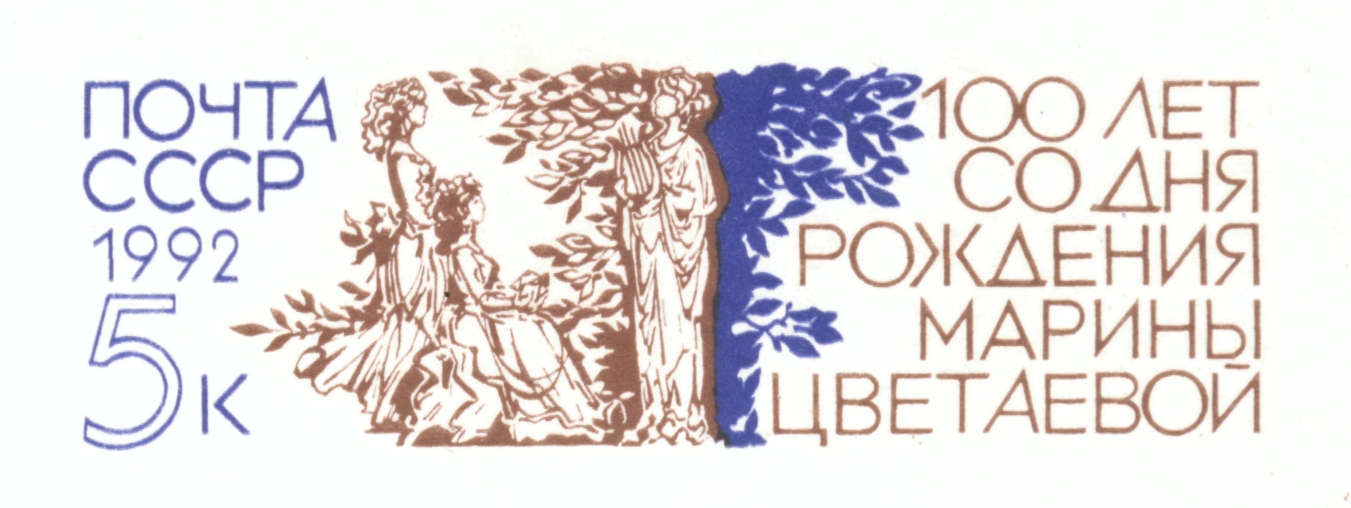 Soviet preprinted (original) stamp of 4 kopecks, 1992. Marina Tsvetaeva. Detail of a postcard of the Soviet Union (postal stationery).